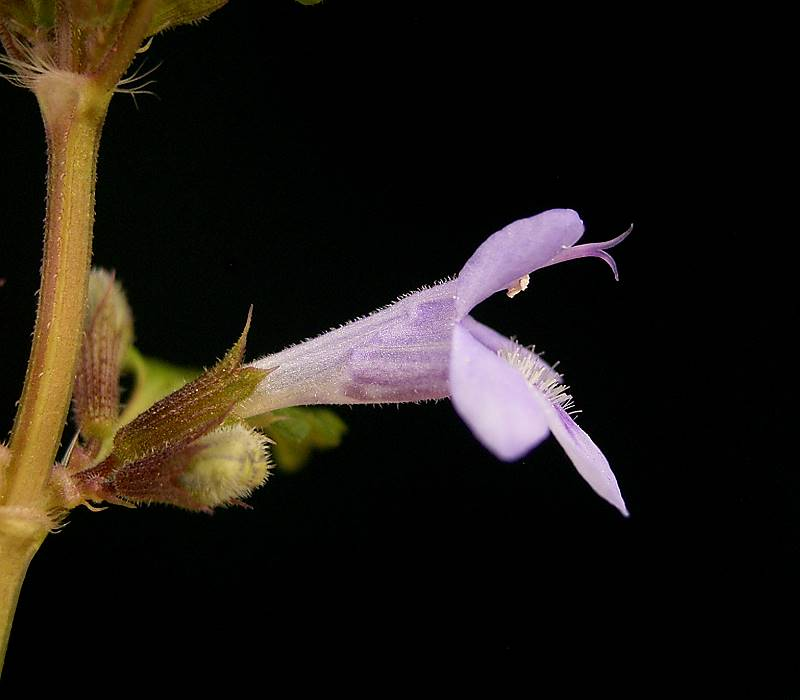 Glechoma hederacea